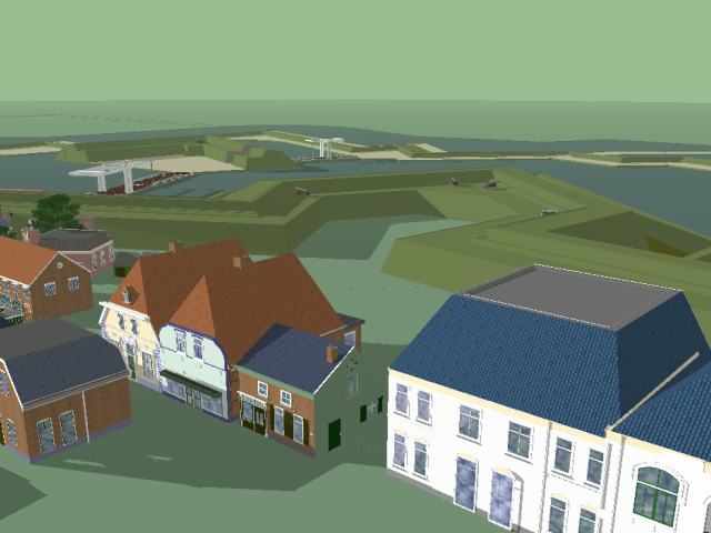 Vreesniet, Bredevoort reconstructiom